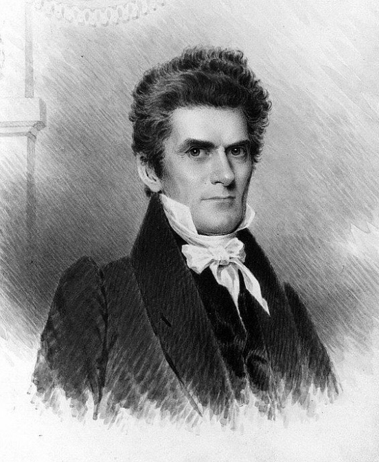 South Carolina Senator John C. Calhoun, by James B. Longacre. Pre-1923 publication proved here (prior to page 1)